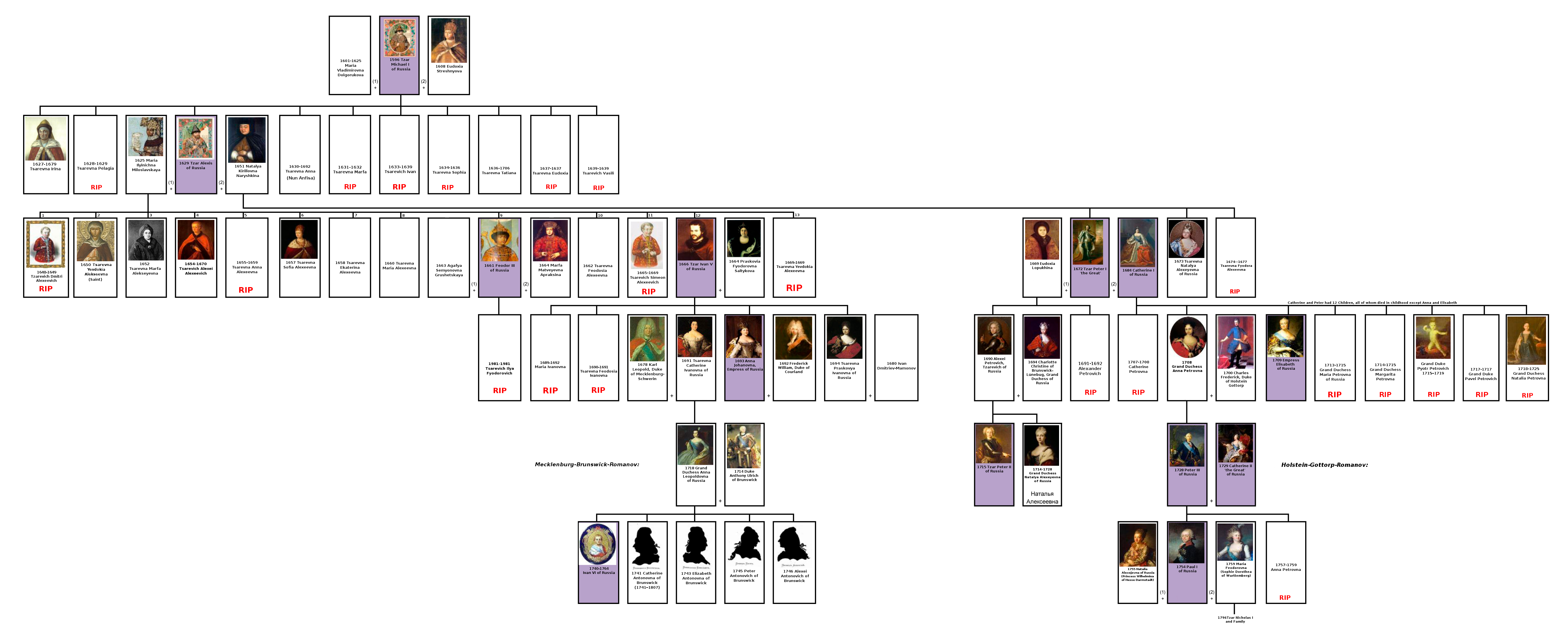 House of Romanov family tree (1613-1754) by shakko (EN)